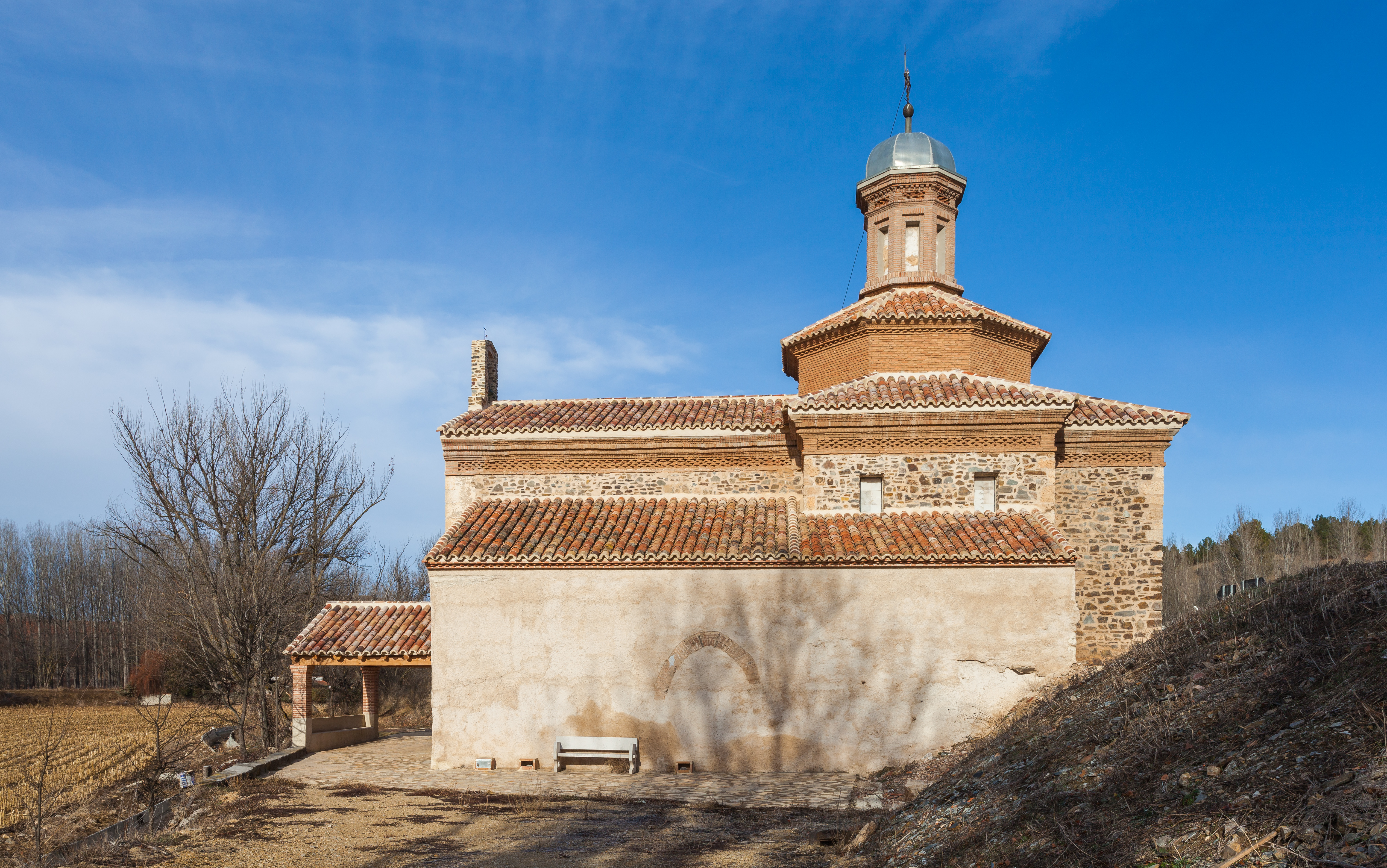 Hermitage of Our Lady of the Rosary, Luco de Jiloca, Teruel, Spain